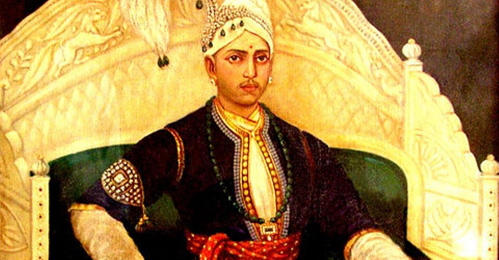 Portrait of the famous 19th Century Maharajah of Travancore, Sree Padmanabhadasa Sree Swathi Thirunal Rama Varma